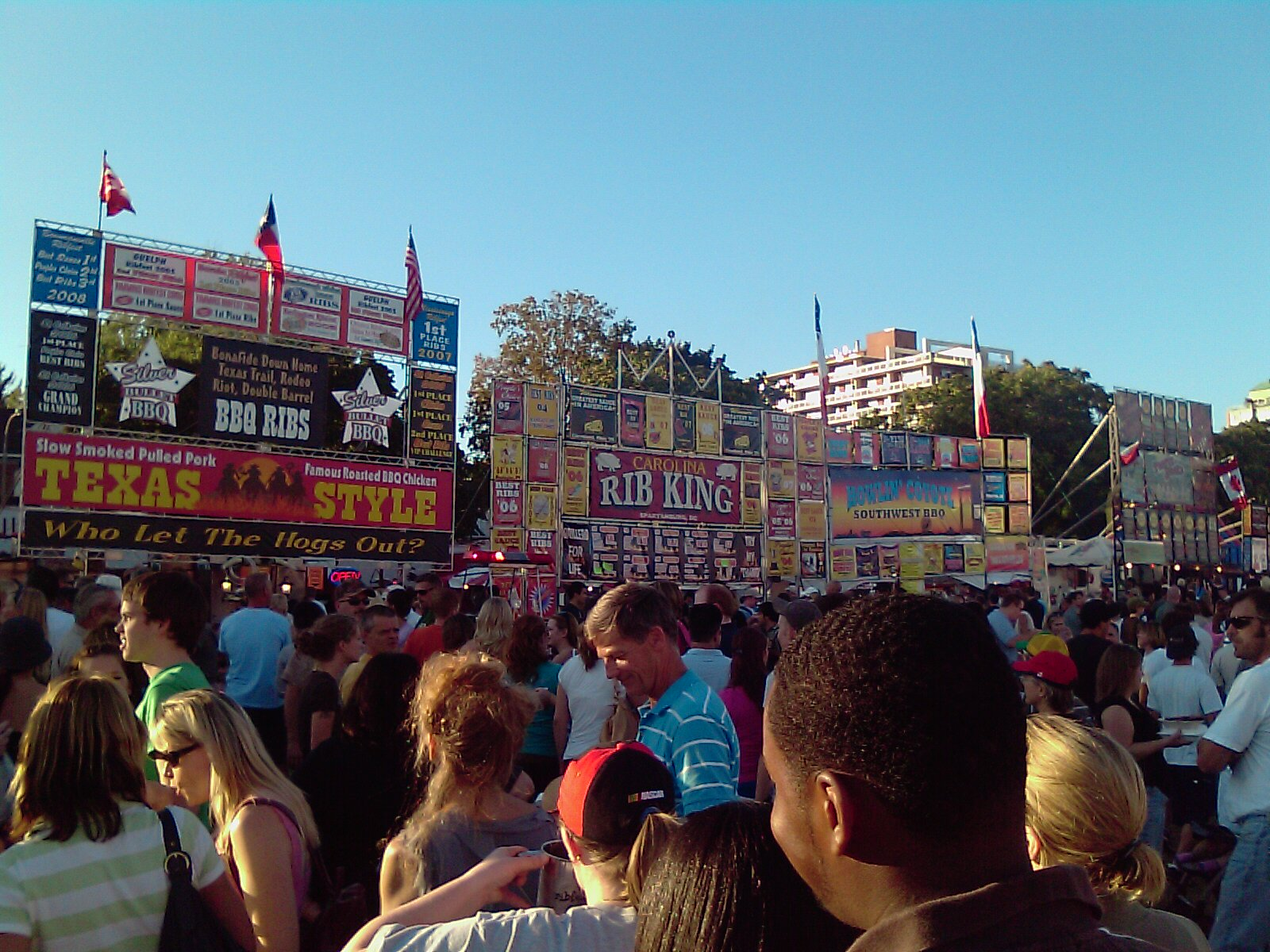 Some of the vendors, Ribfest 2008